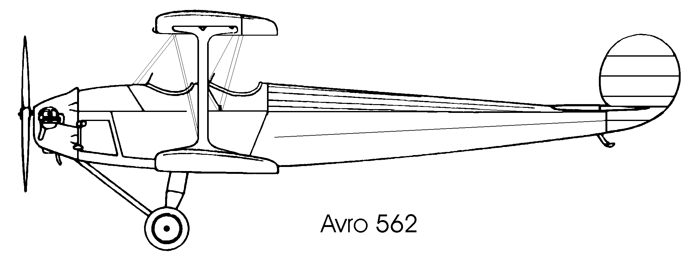 Avro 562 Avis, British aeroplane Drawing left side Christoph Grimlowski, Germany